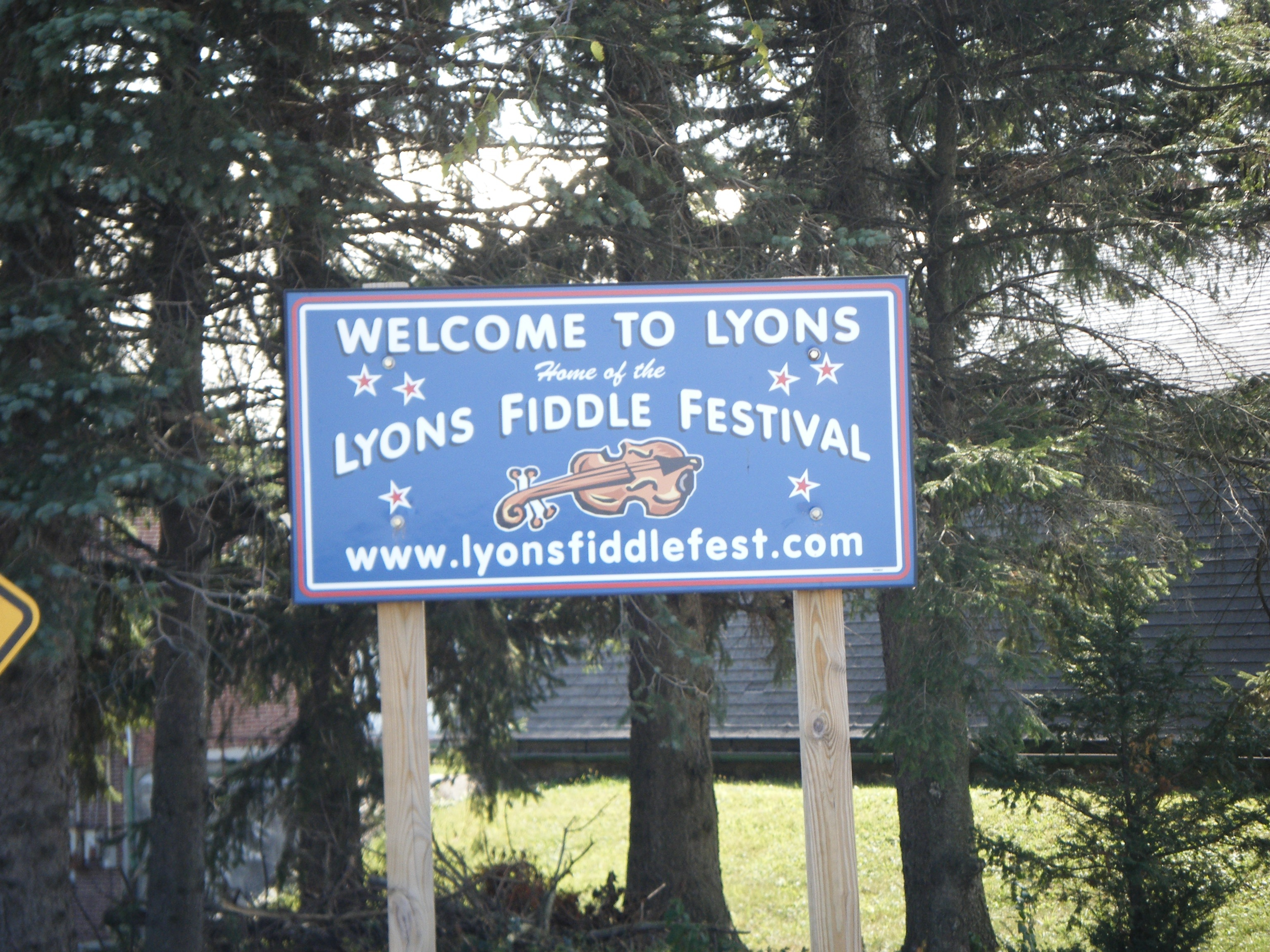 The welcome sign to Lyons, Pennsylvania on North Main Street.